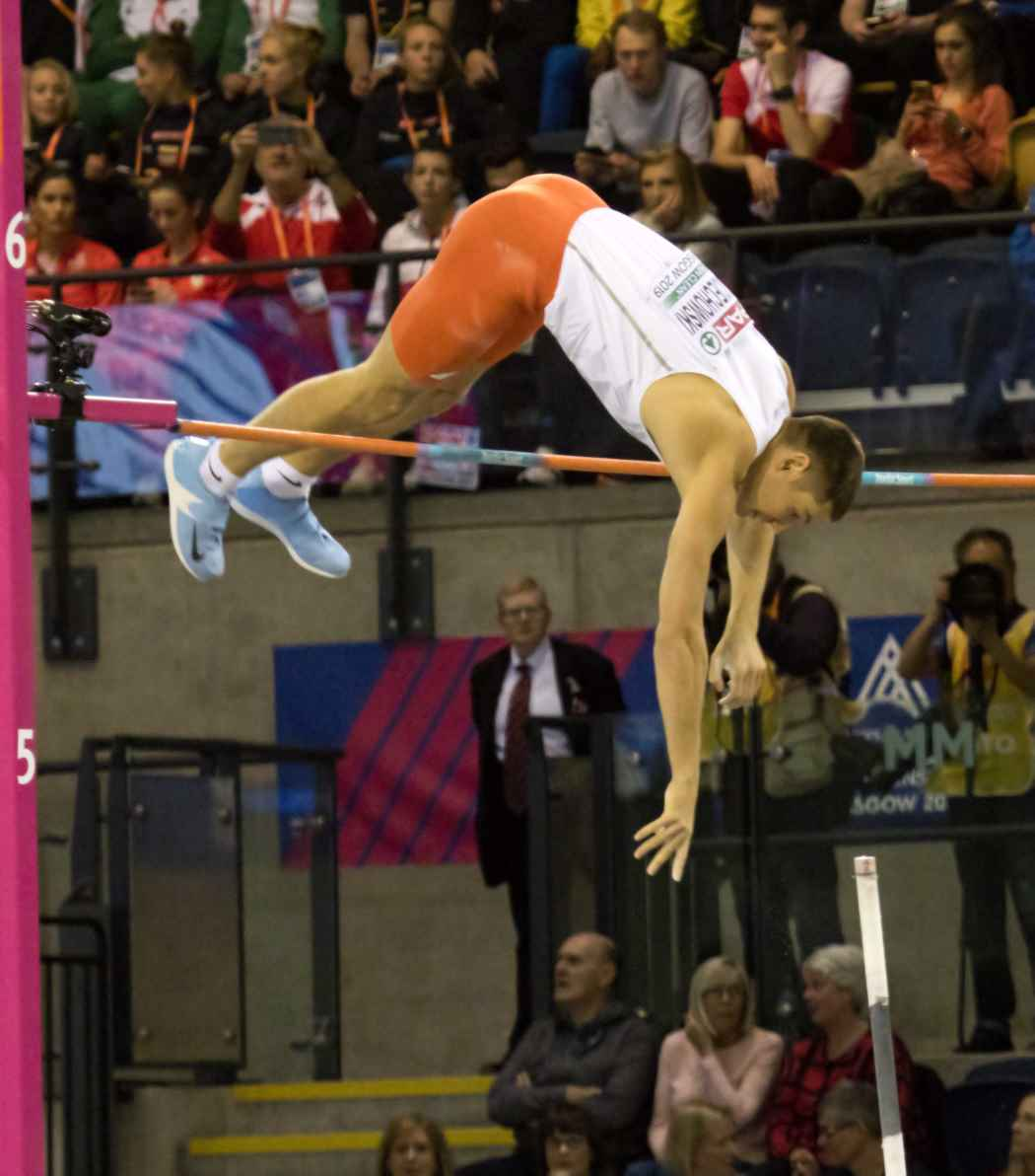 Pawel Wojciechowski, Glasgow 2019